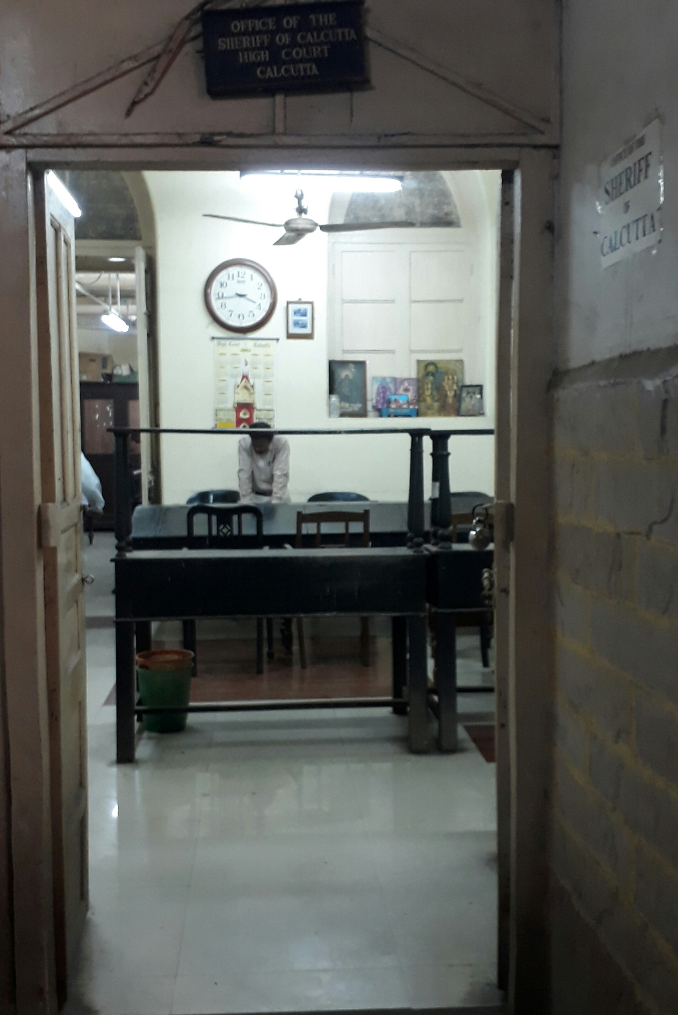 Sheriff office in Calcutta High Court